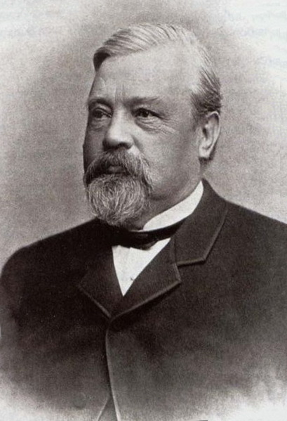 Karl Gegenbaur